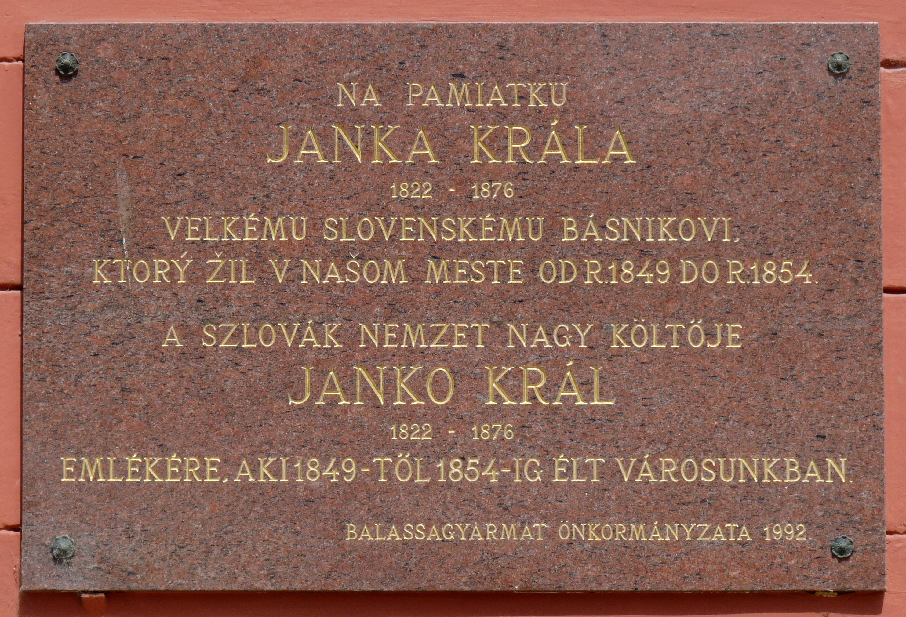 Commemorative plaque to Mr Janko Kráľ (1822–1876) Slovak poet, creator of the Slovak revolutionary poetry who lived in the city between 1849 and 1854. The plaque was placed on the front of the Palace of the former Nógrád County on the occasion of the poet's 170th birthday. (Balassagyarmat, Civitas Fortissima Square Nr 2) Here-lived plaques in Hungary Plaques in Balassagyarmat Plaques to poets in Hungary Bilingual plaques in Hungary Slovak inscriptions in Hungary Plaques installed in 1992